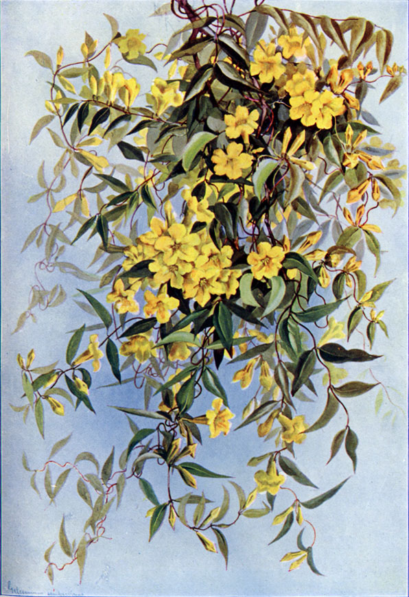 Carolina Jessamine, Gelsemium sempervirens offset color reproduction or engraving/etching